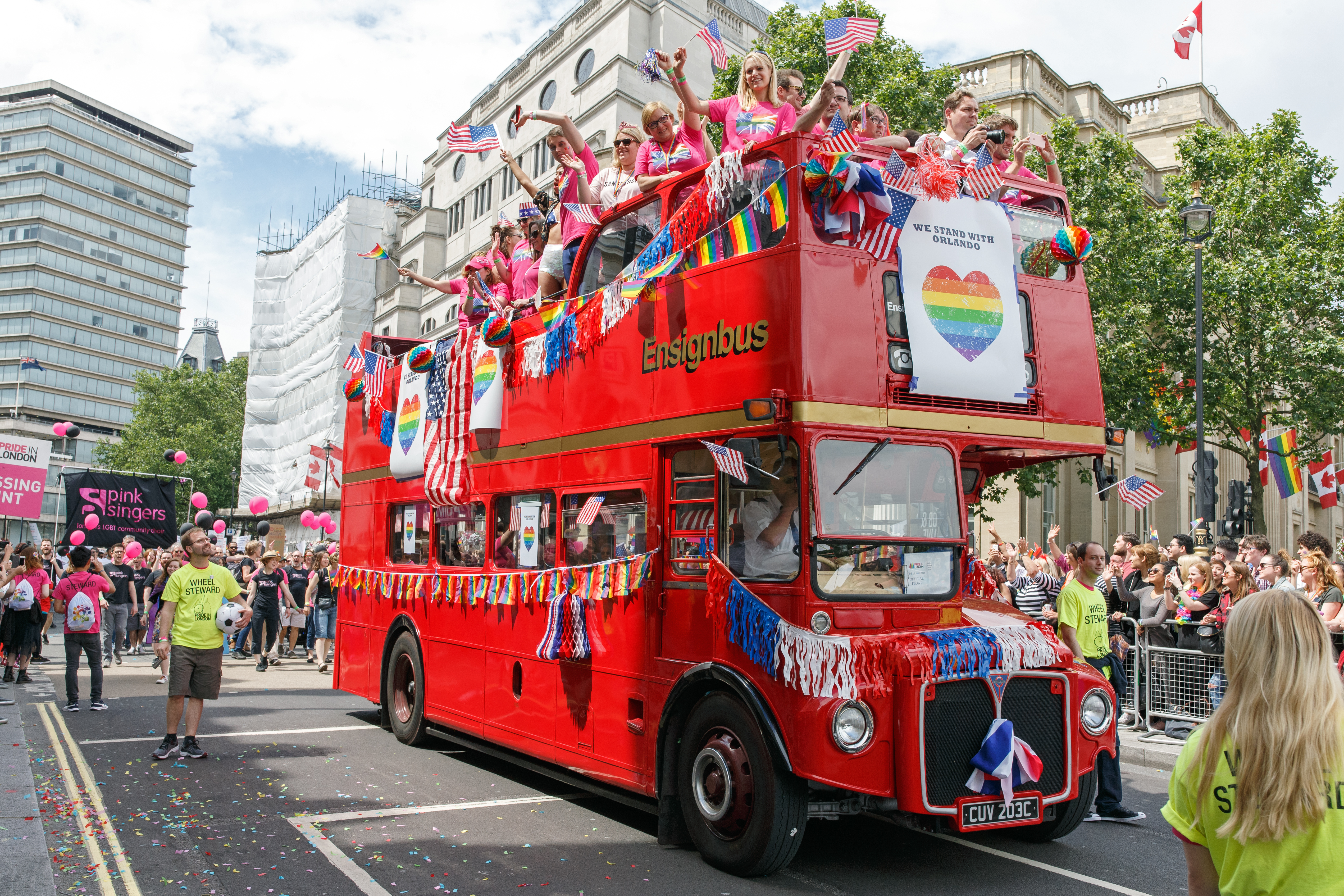 An Ensignbus in the parade at Pride in London 2016, with a "We Stand with Orlando" banner draped from the front of the upper deck.